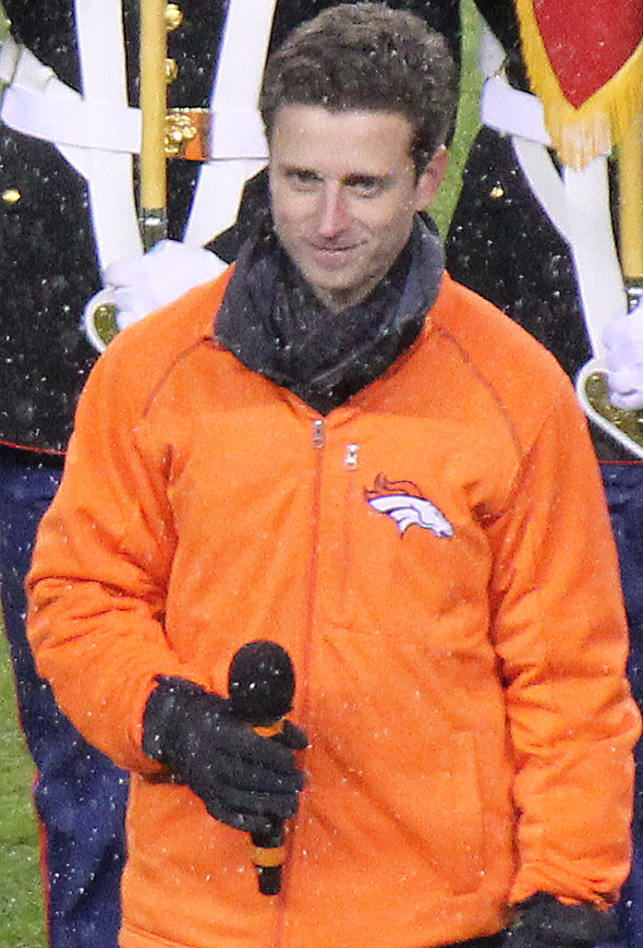 Kevin Massey, an American actor in musical theater productions. Here, he is preparing to sing the United States National Anthem at Sports Authority Field at Mile High in Denver, Colorado, before an American football game between the Denver Broncos and the New England Patriots on November 29, 2015.